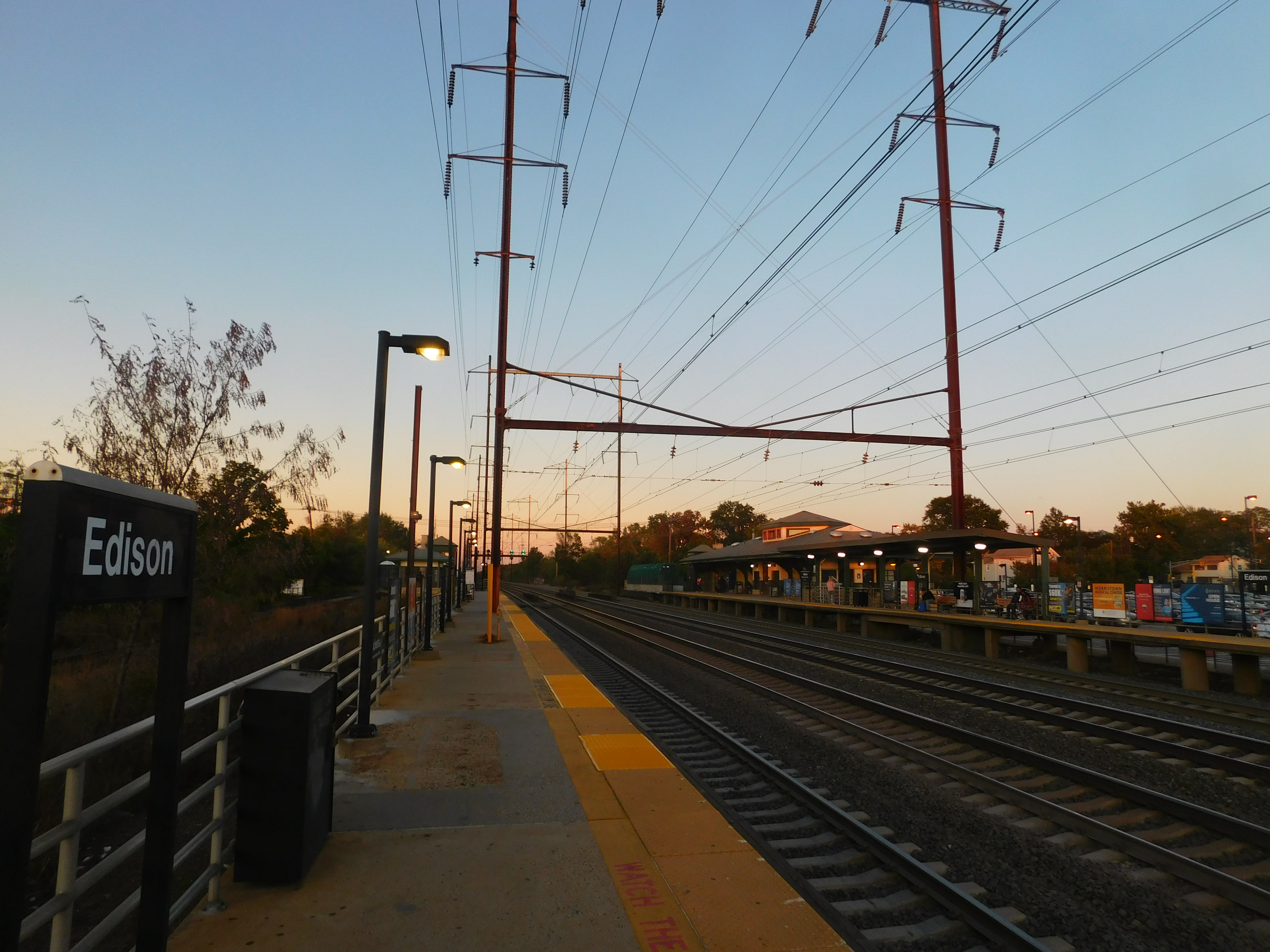 Edison station of the New Jersey Transit Northeast Corridor at sunset in October 2019.